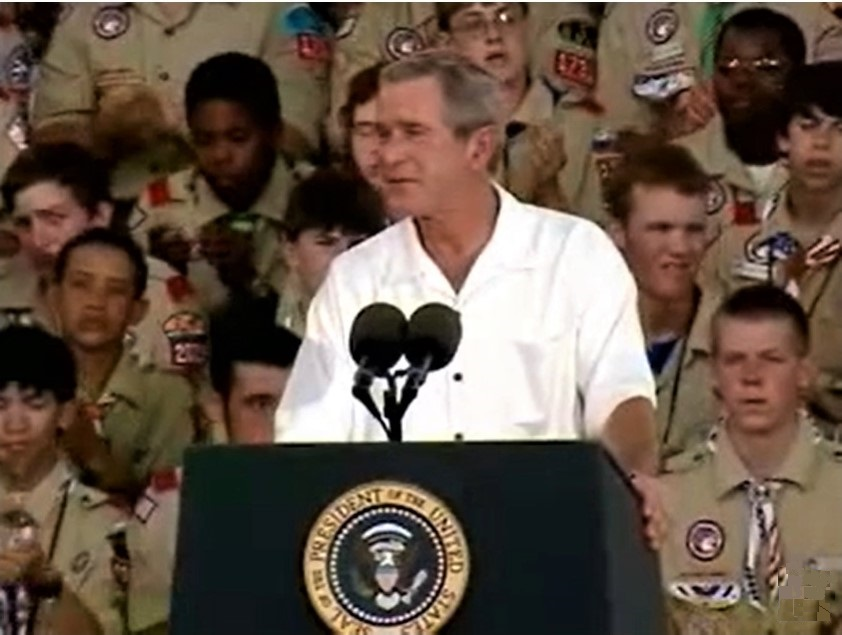 President Bush addresses the Boy Scouts of America's 2005 National Scout Jamboree. Screenshot from a video found on the official US White House website.